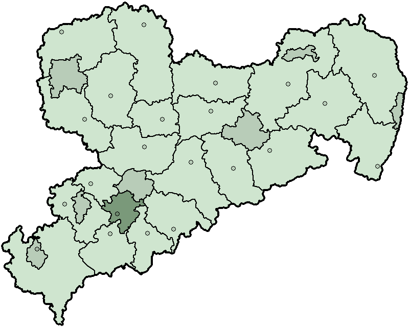 Map of the state Saxony in Germany before 2008, district Stollberg highlighted.